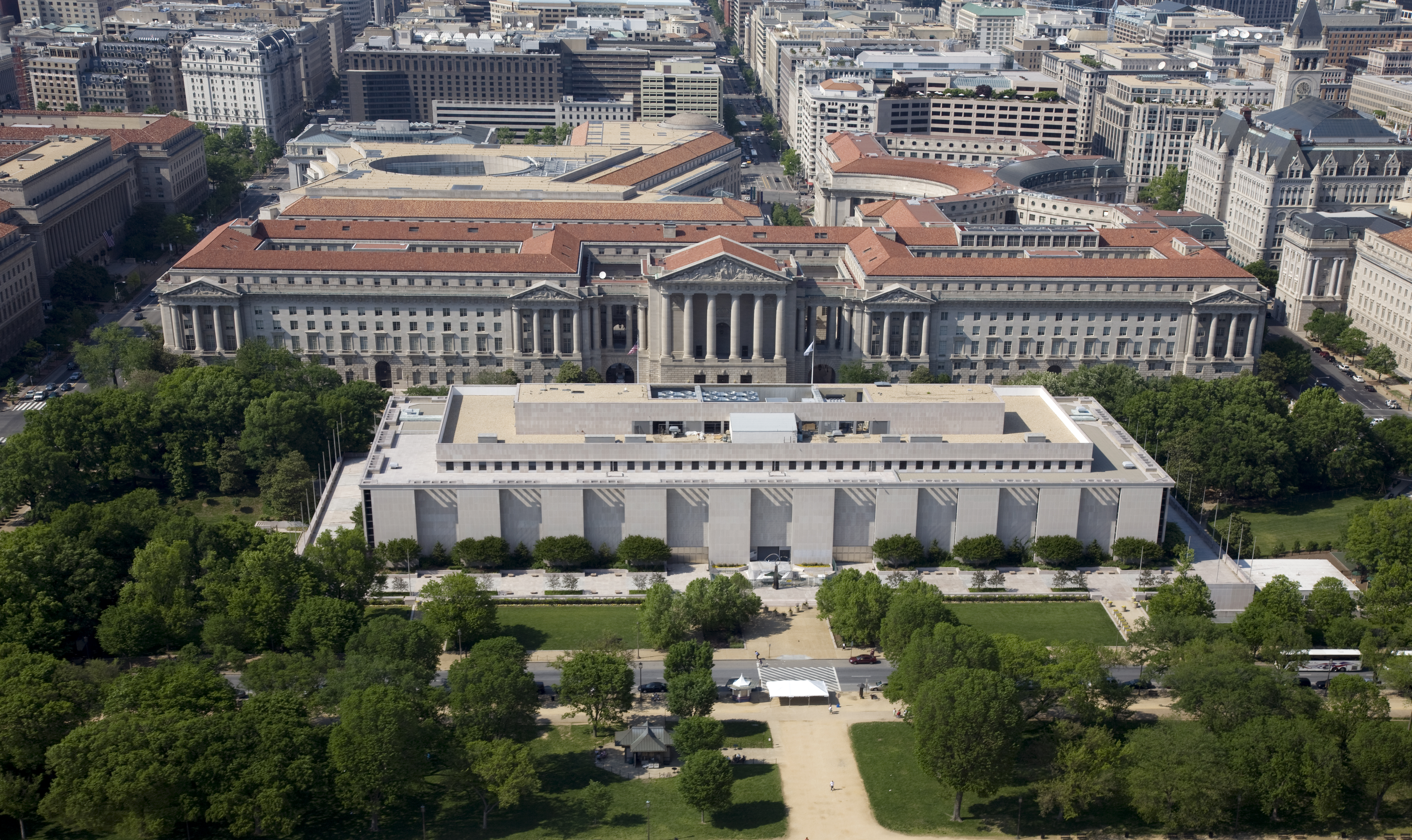 Aerial view of the National Museum of American History, located on the National Mall in Washington, D.C. The Andrew W. Mellon Auditorium, among other buildings in the Federal Triangle, is visible in the background.